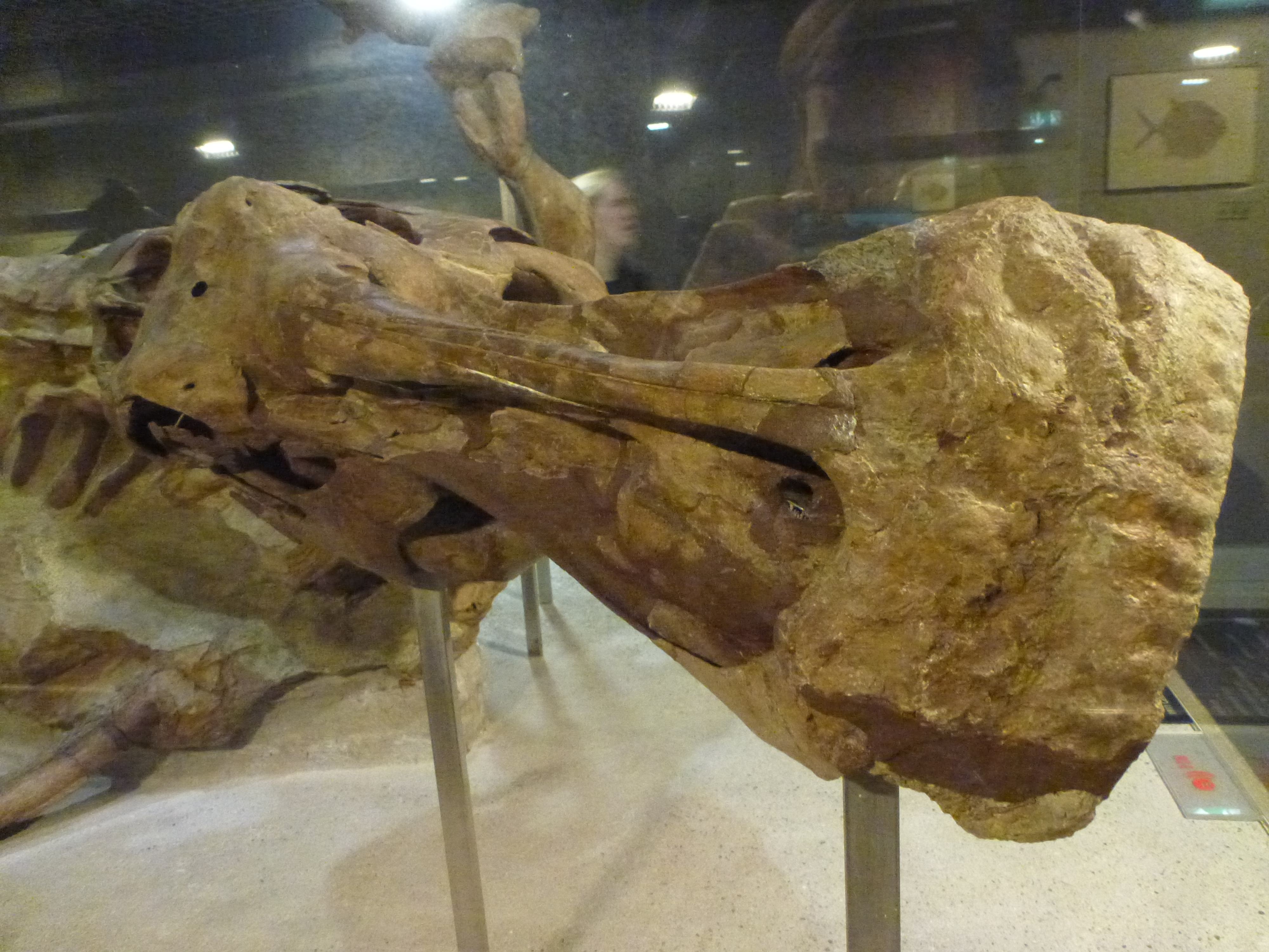 The Edmontosaurus mummy SMF R 4036 on display at the Senckenberg Museum, Frankfurt, Germany.